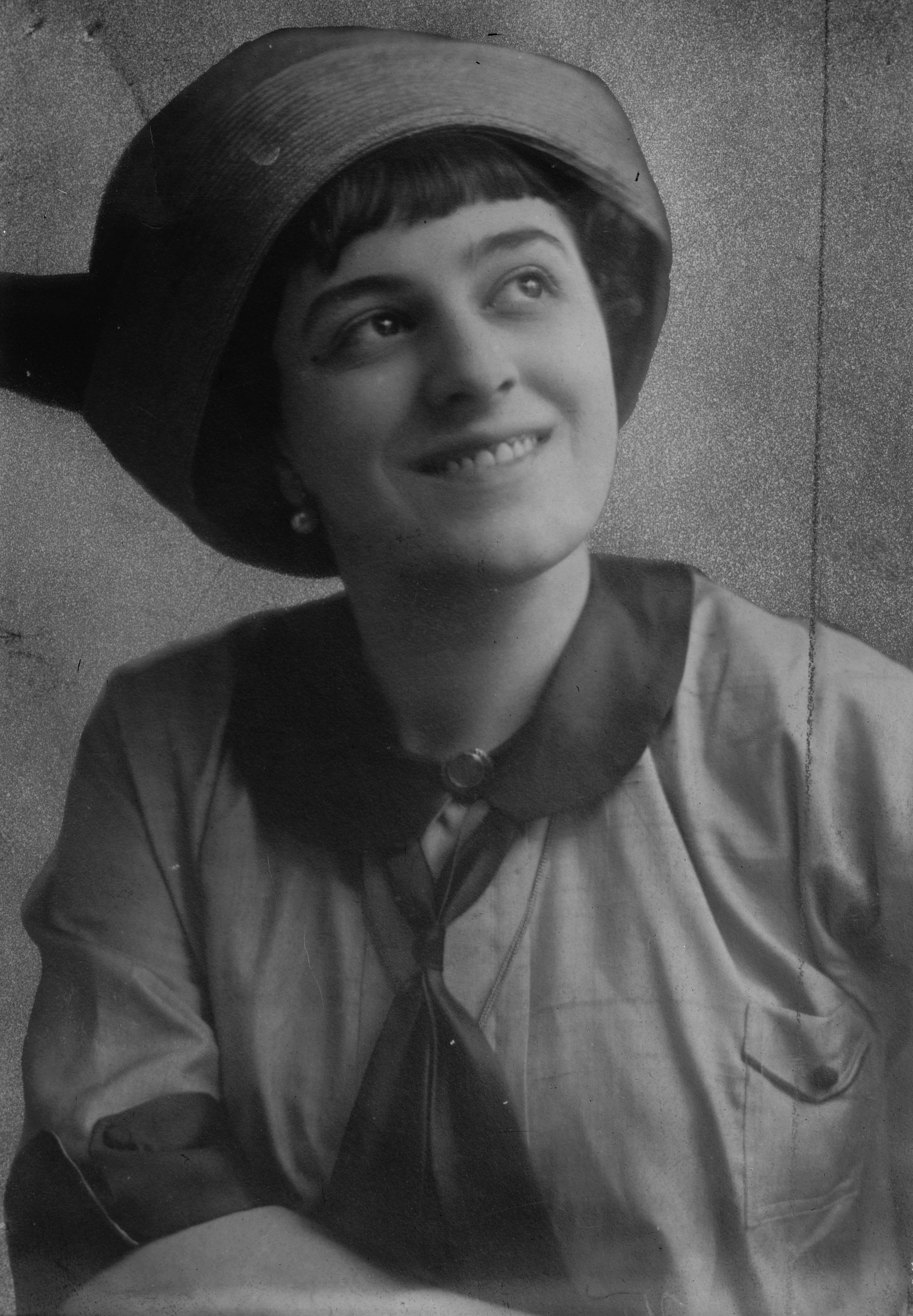 Illustrator Fay King (cartoonist), who was married to boxer Battling Nelson from 1913 to 1916.